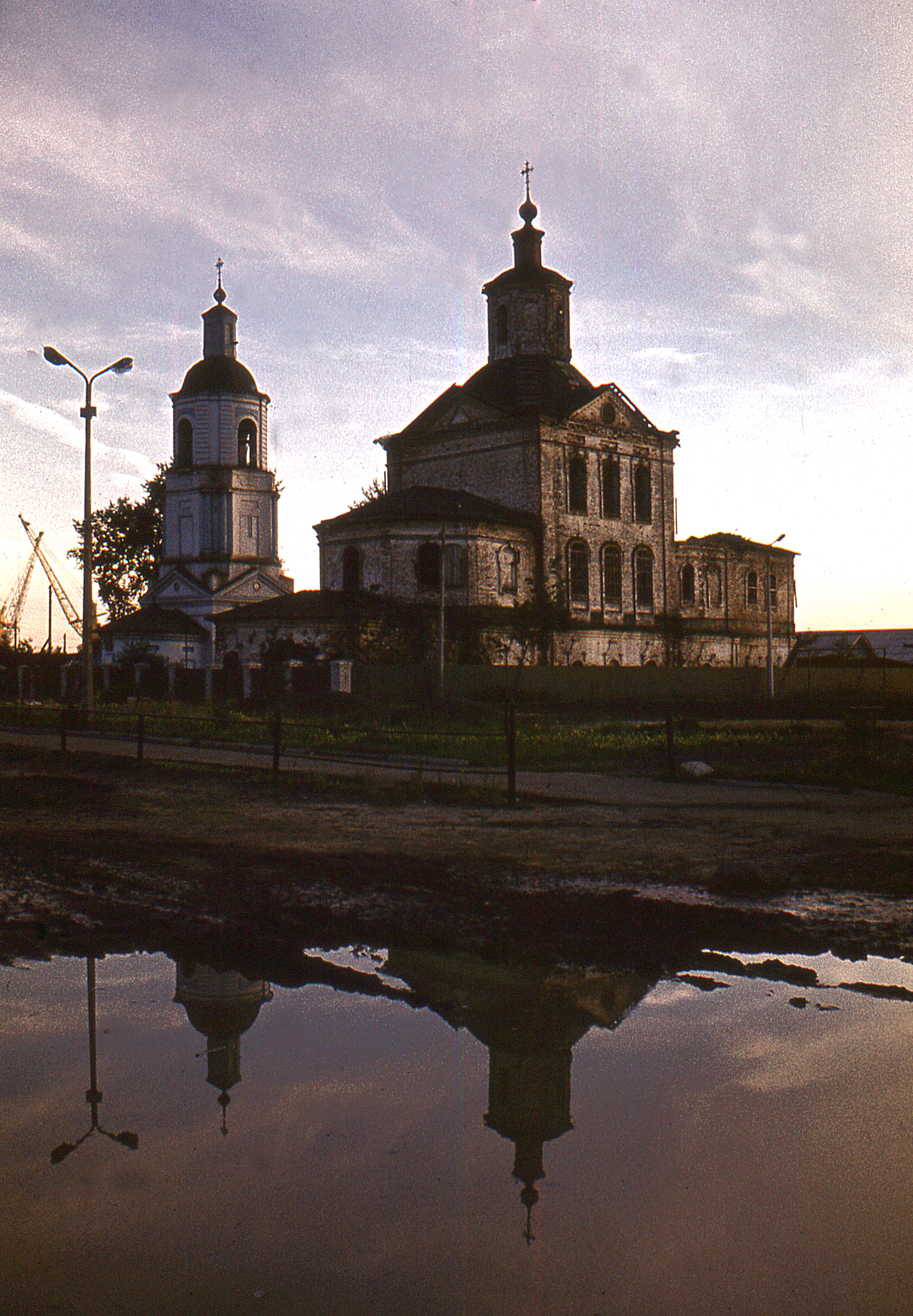 The Church of St. Stephan of Perm and the bell-tower, Kotlas, Arkhangelsk Oblast, Russia. Kirova street 61